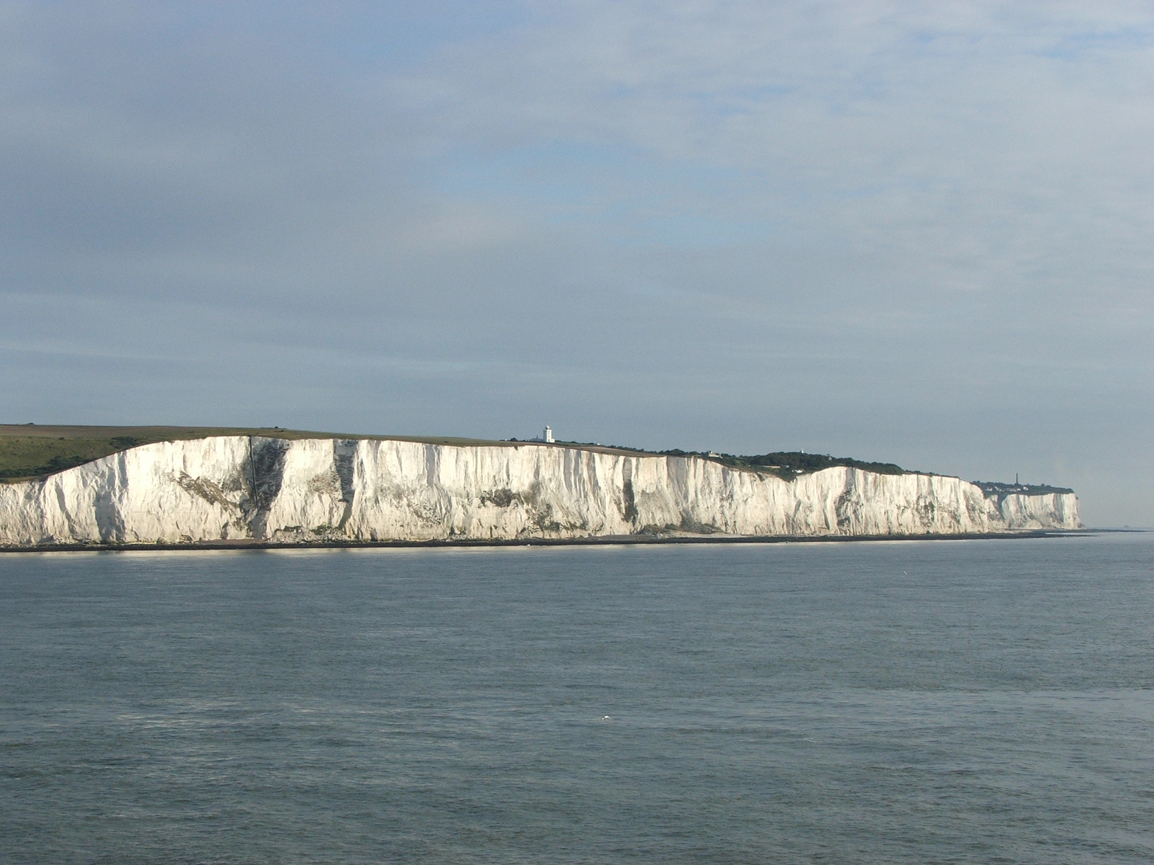 White Cliffs of Dover, England - the South Foreland Lighthouse can be seen in the middle and the St Margaret's Bay Windmill to its right.